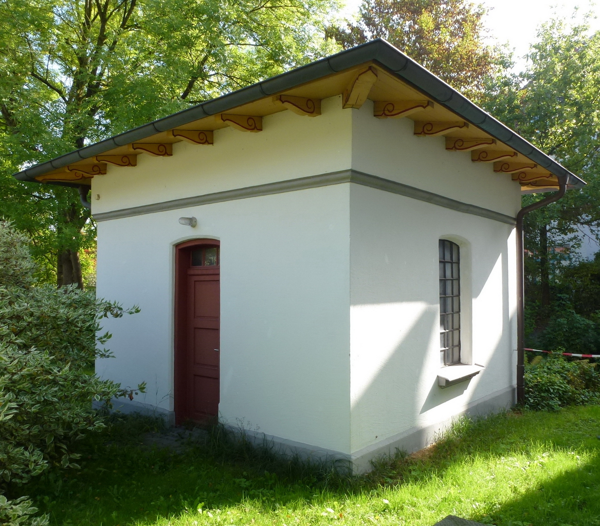 This is a photograph of an architectural monument.